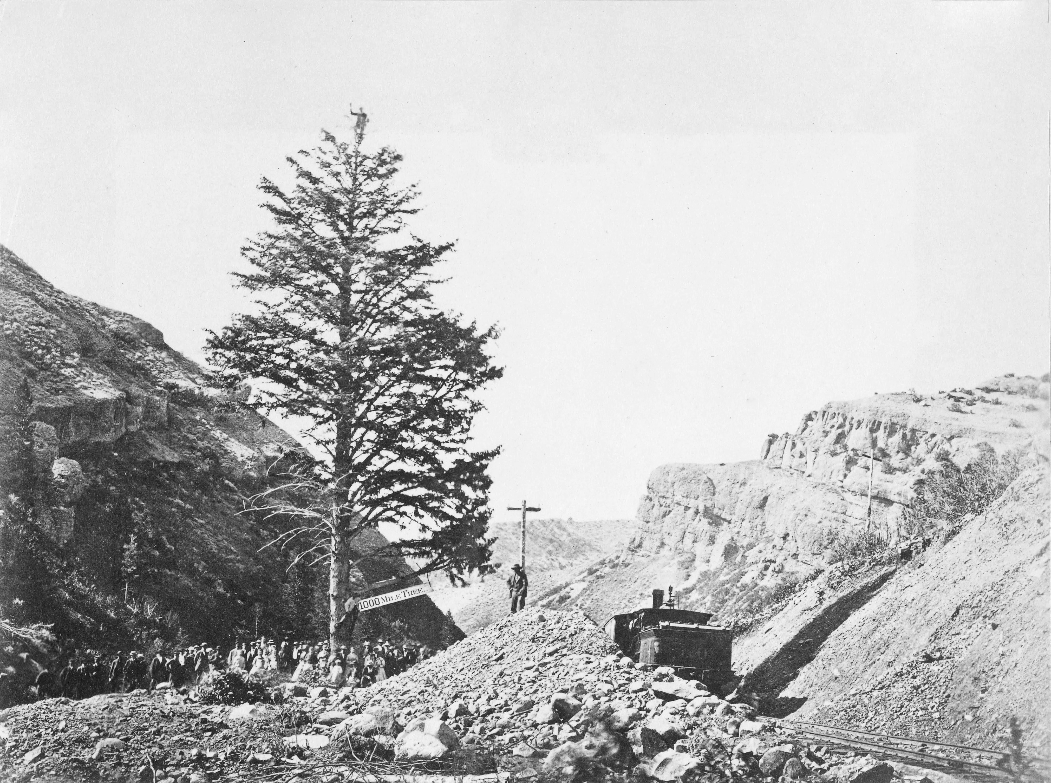 Thousand Mile Tree at Wilhelmina's Pass with group of people at base and one man at apex of tree next to railroad. This tree is exactly 1000 miles from Omaha.